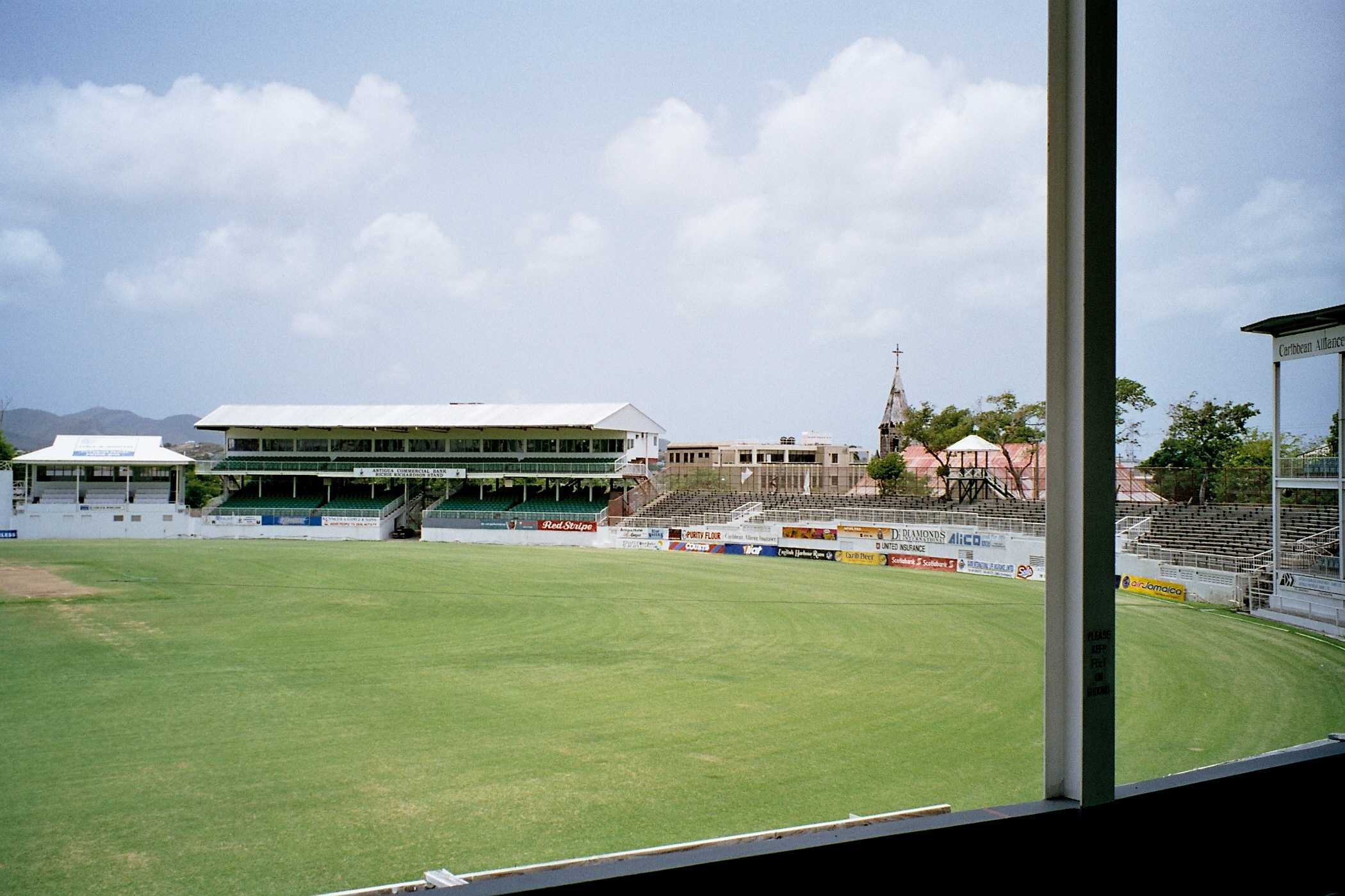 Cricket ground: Antigua, June 2003. The cricket ground in St.John (the capital).